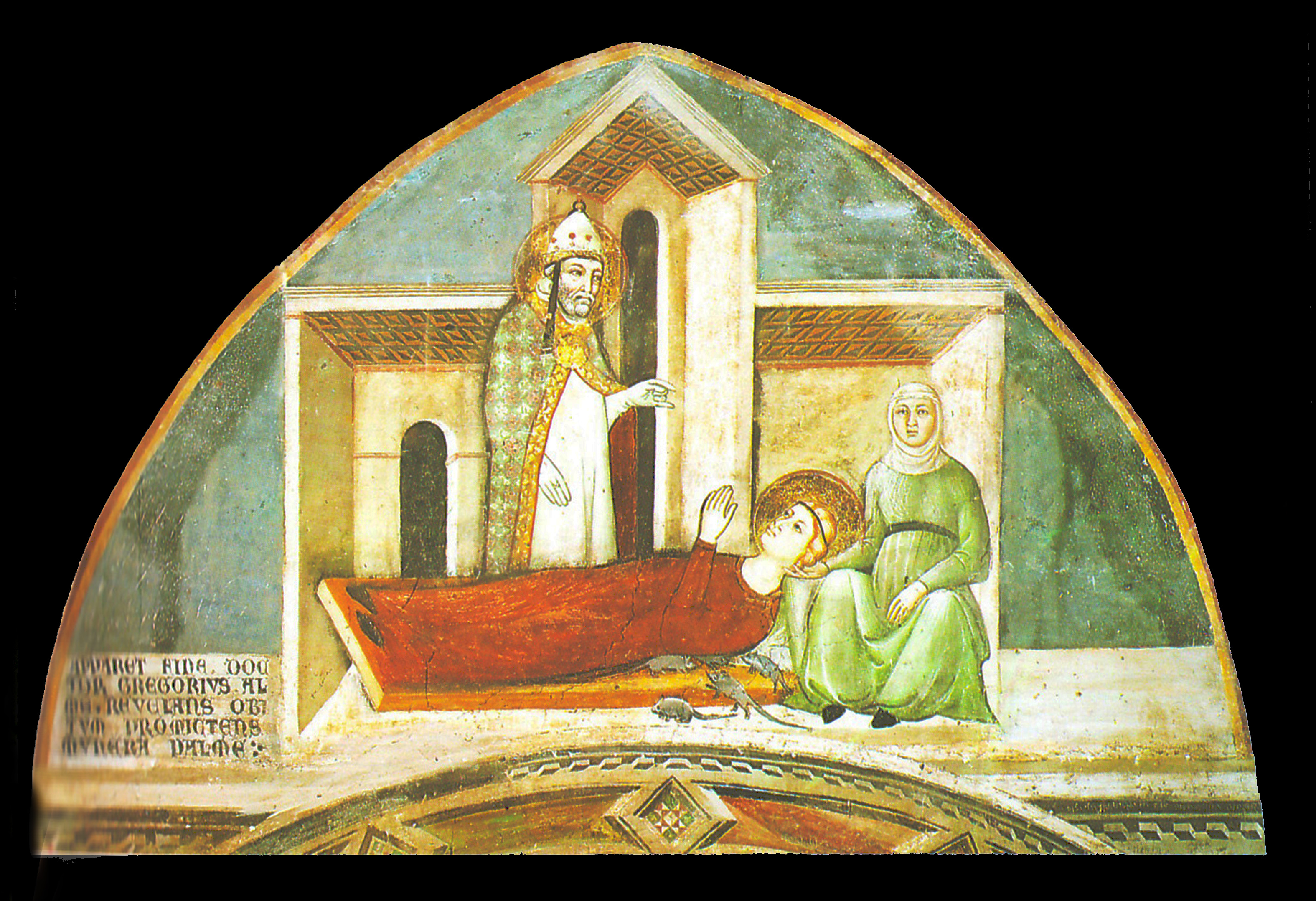 St Gregory appearing to Saint Fina to announce her death.